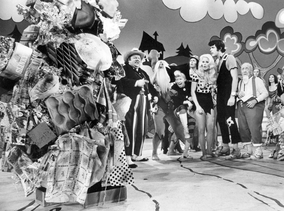 Photo from a television special presentation of a musical version of Li'l Abner. The storyline is that the modern world comes to Dogpatch. Shown from left:Dale Malone (Marryin' Sam), Billie Hayes (Mammy Yokum), Nancee Parkinson (Daisy Mae), Ray Young (Li'l Abner), Billy Betcher (Pappy Yokum).